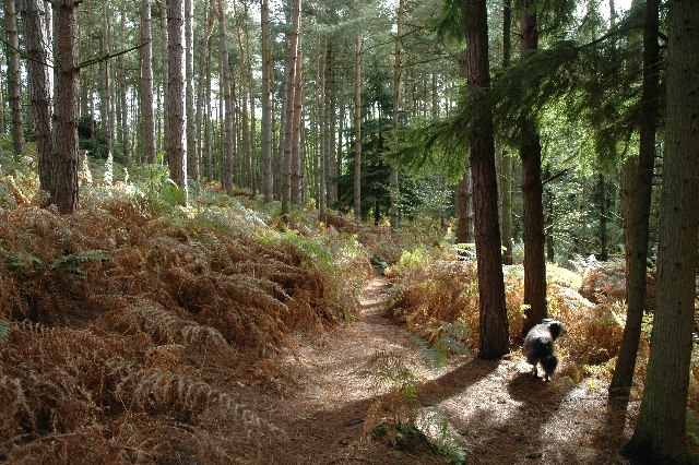 Delamere Forest. Autumn colours in Delamere Forest. Looking south from SJ 55263 71786.